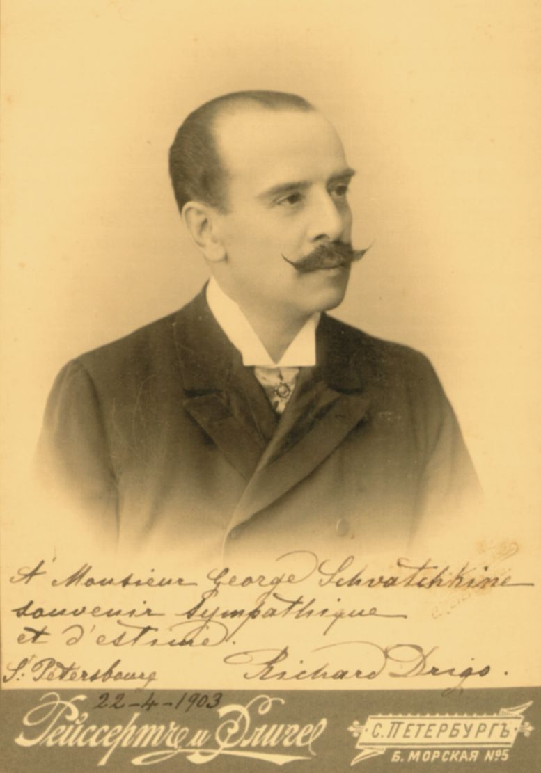 Photograph of Riccardo Eugenio Drigo (1846-1930). Chef d'orchestre of the Imperial Italian Opera of St. Petersburg (1878-1884); Kapellmeister of the St. Petersburg Imperial Ballet (1886-1917); Chef d'orchestre of ballet and Italian opera performances of the Imperial Mariinsky Theatre Orchestra of St. Petersburg (1886-1917). Noted composer of ballet music, conductor, and pianist.